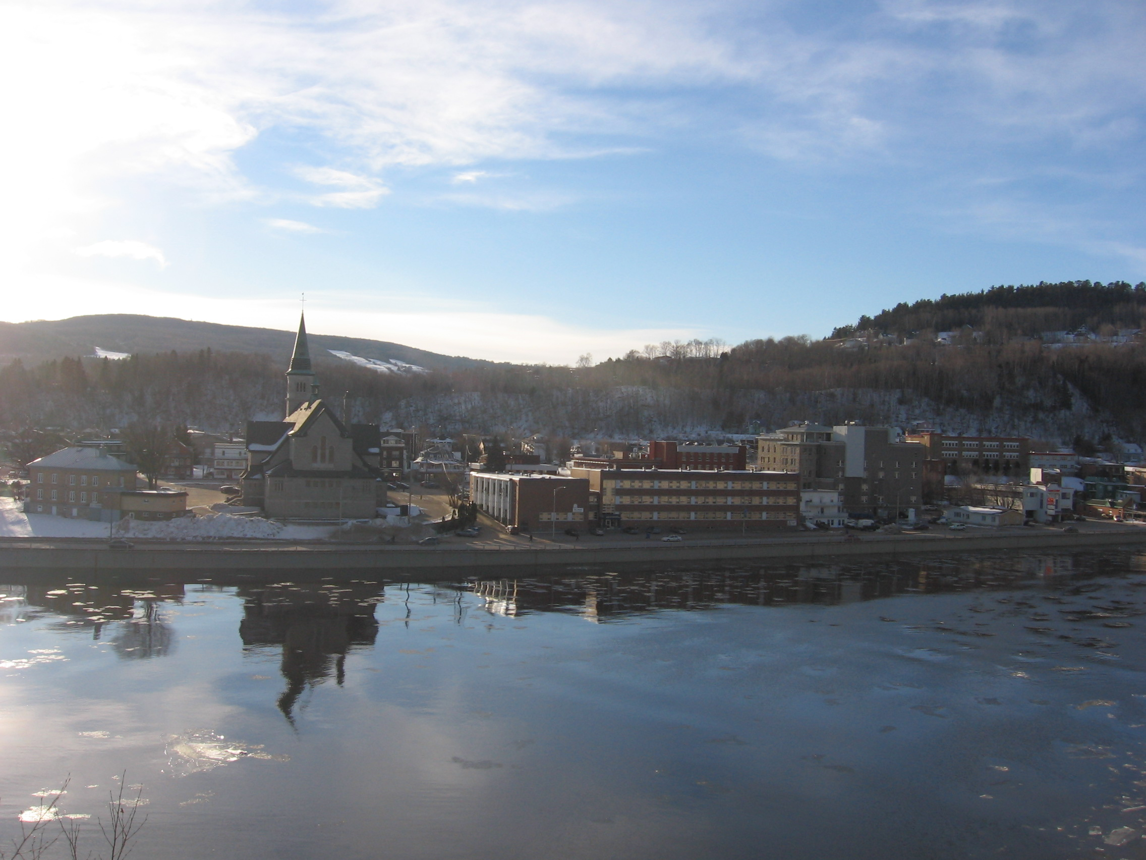 La Malbaie